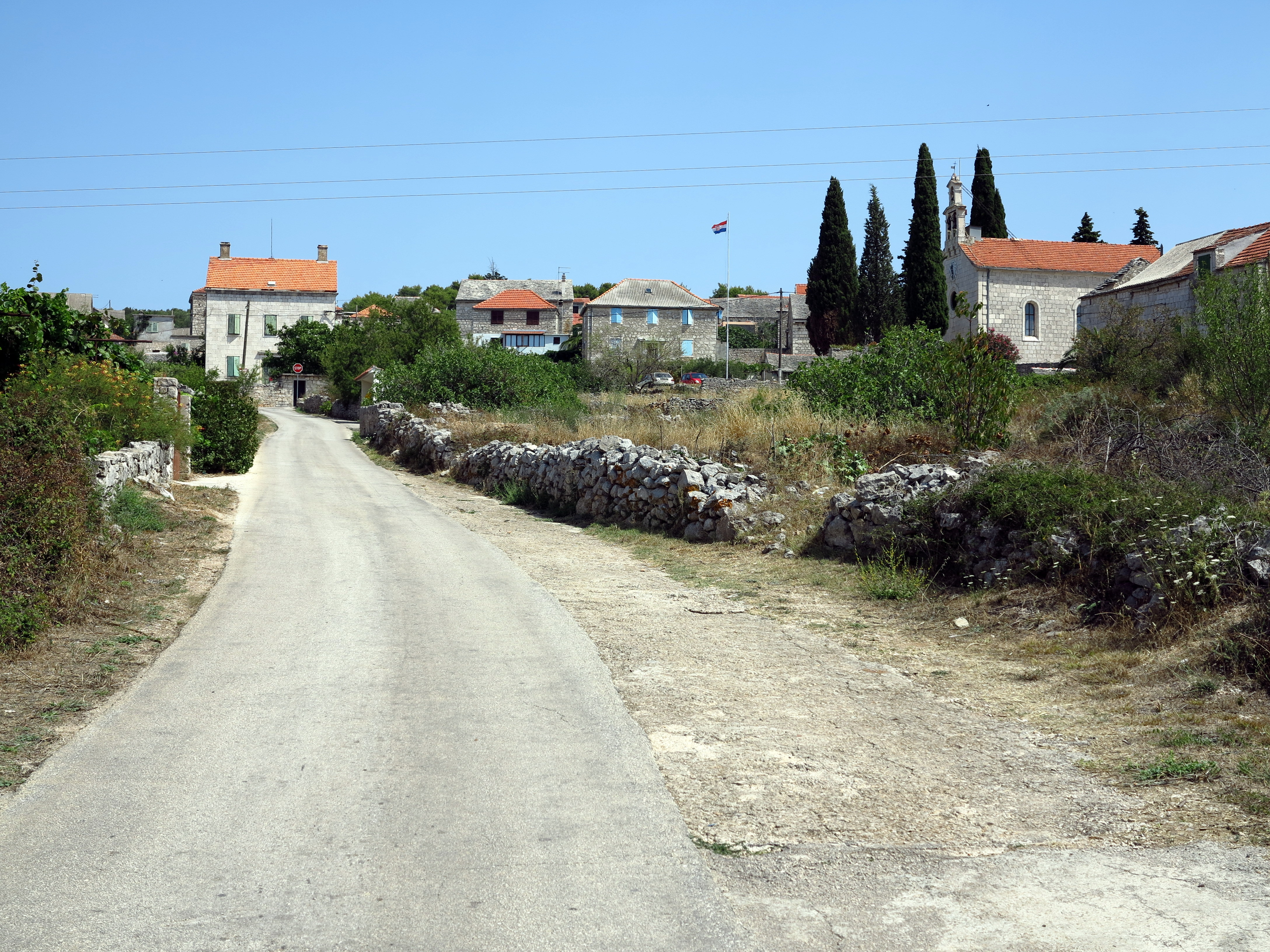 Srednje Selo on the island Šolta / Croatia / Adriatic Sea.